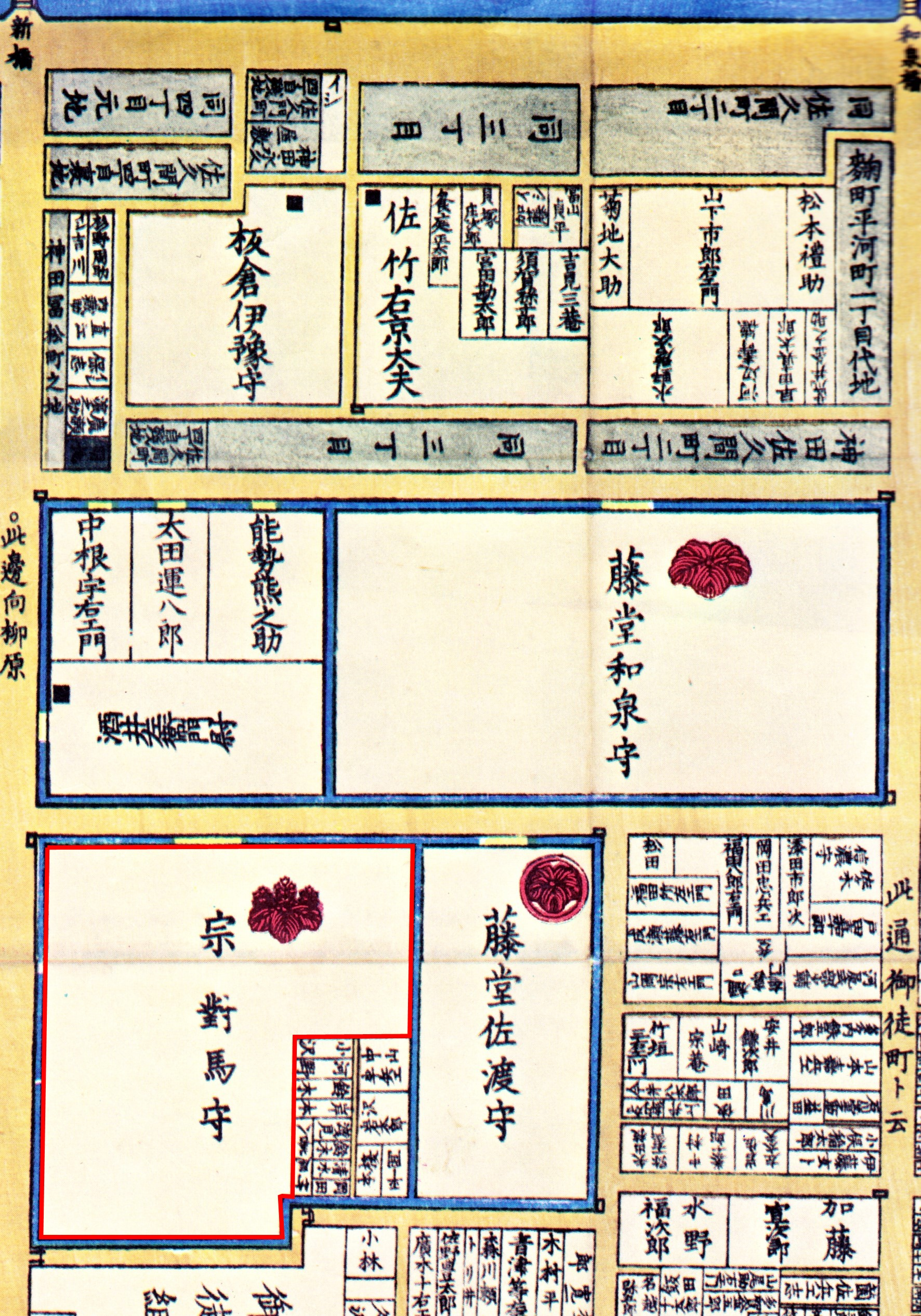 Residence of Sô at Edo